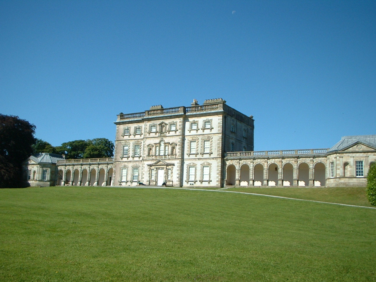 Florence Court, near Enniskillen, Co.Fermanagh, Northern Ireland